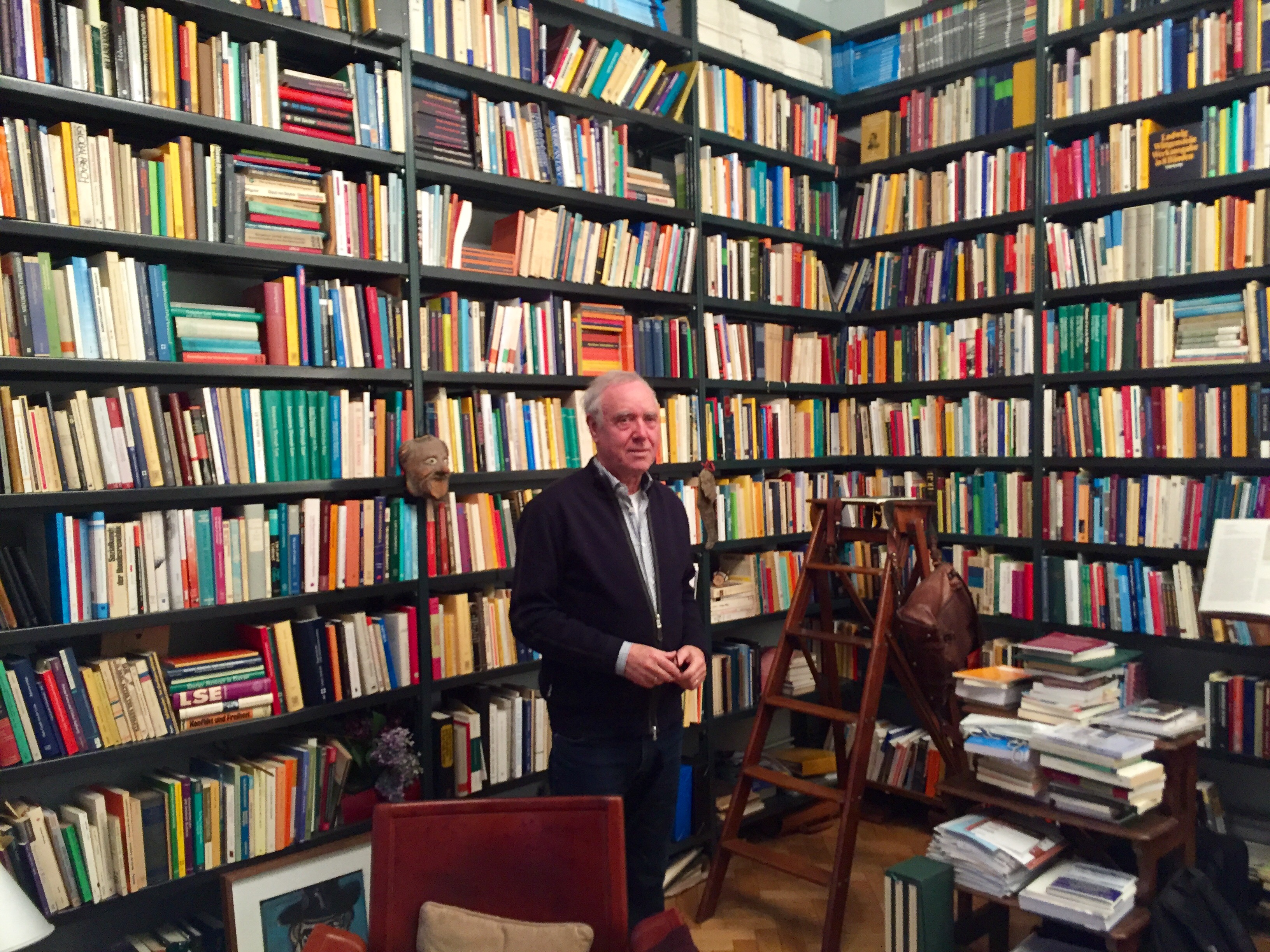 Gunther Teubner. Frankfurt, 2017.